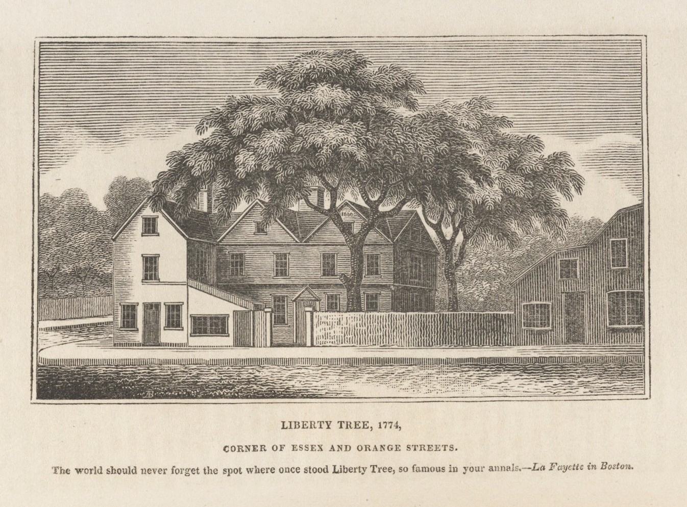 Illustration of The Liberty Tree in Boston. From A History of Boston, the metropolis of Massachusetts, from its origin to the present period, by Caleb H. Snow. Published in Boston by Abel Bowen; printed by Munroe and Francis, 1825. *AC8 Sn612 825h, Houghton Library, Harvard University